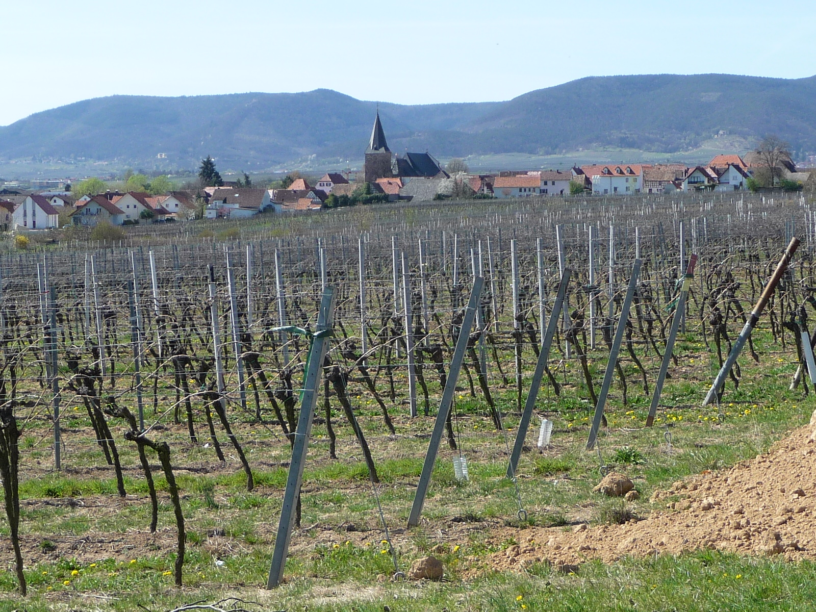 Kirrweiler in Rhineland-Palatinate, Germany